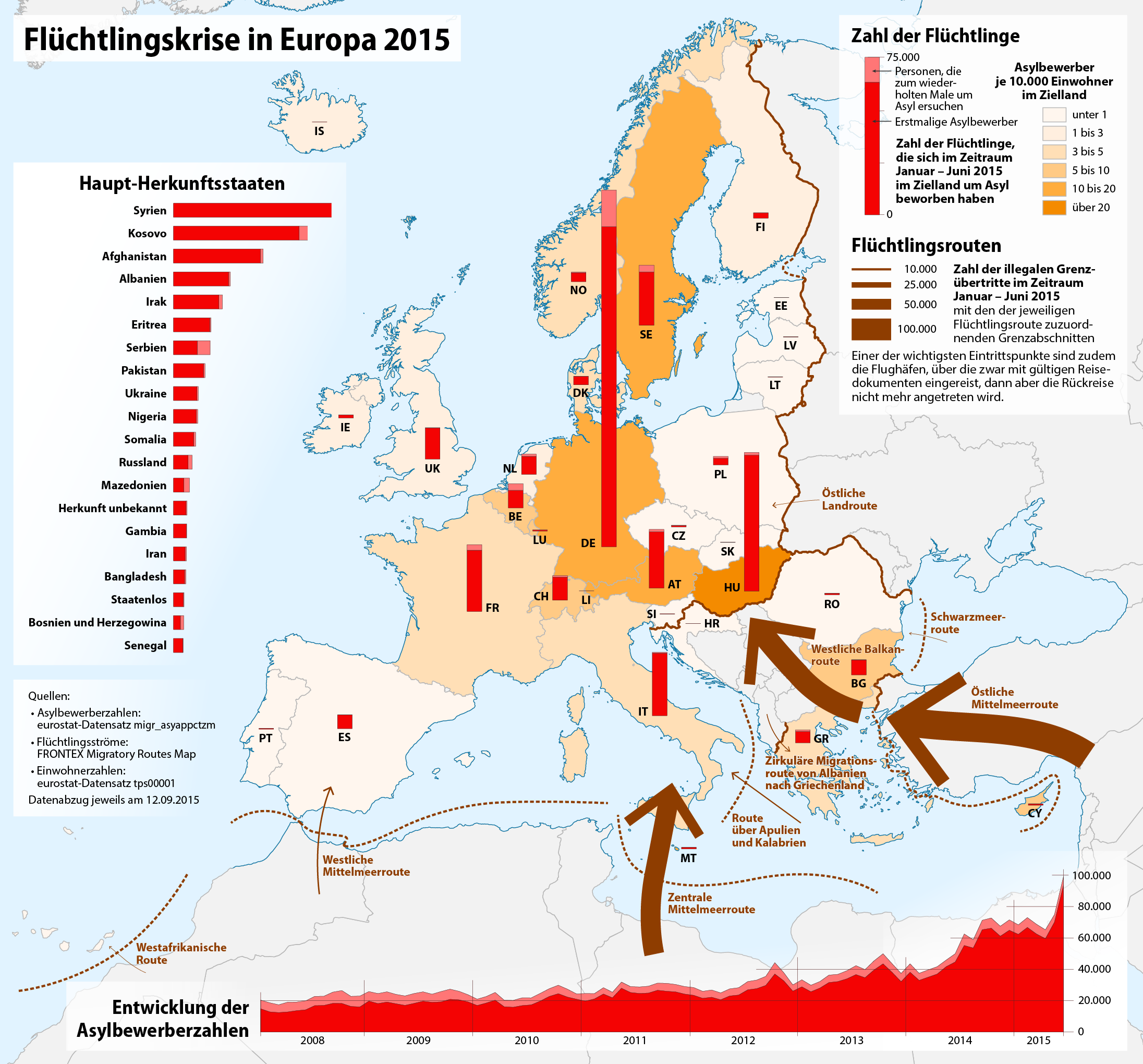 European migrant crisis. Asylum applicants in Europe between 1 January and 30 June 2015.